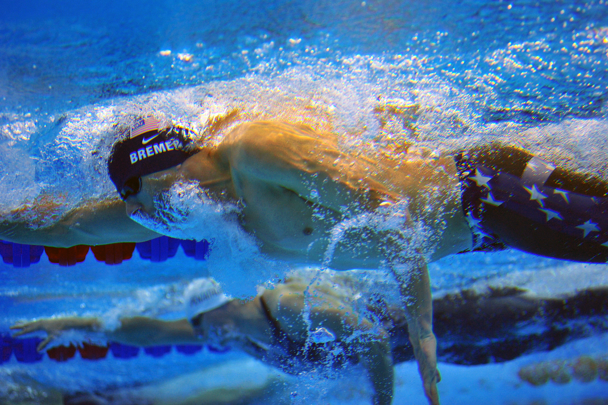 Photograph of Eli Bremmer swimming in the 200m freestyle portion of Olympic pentathalon